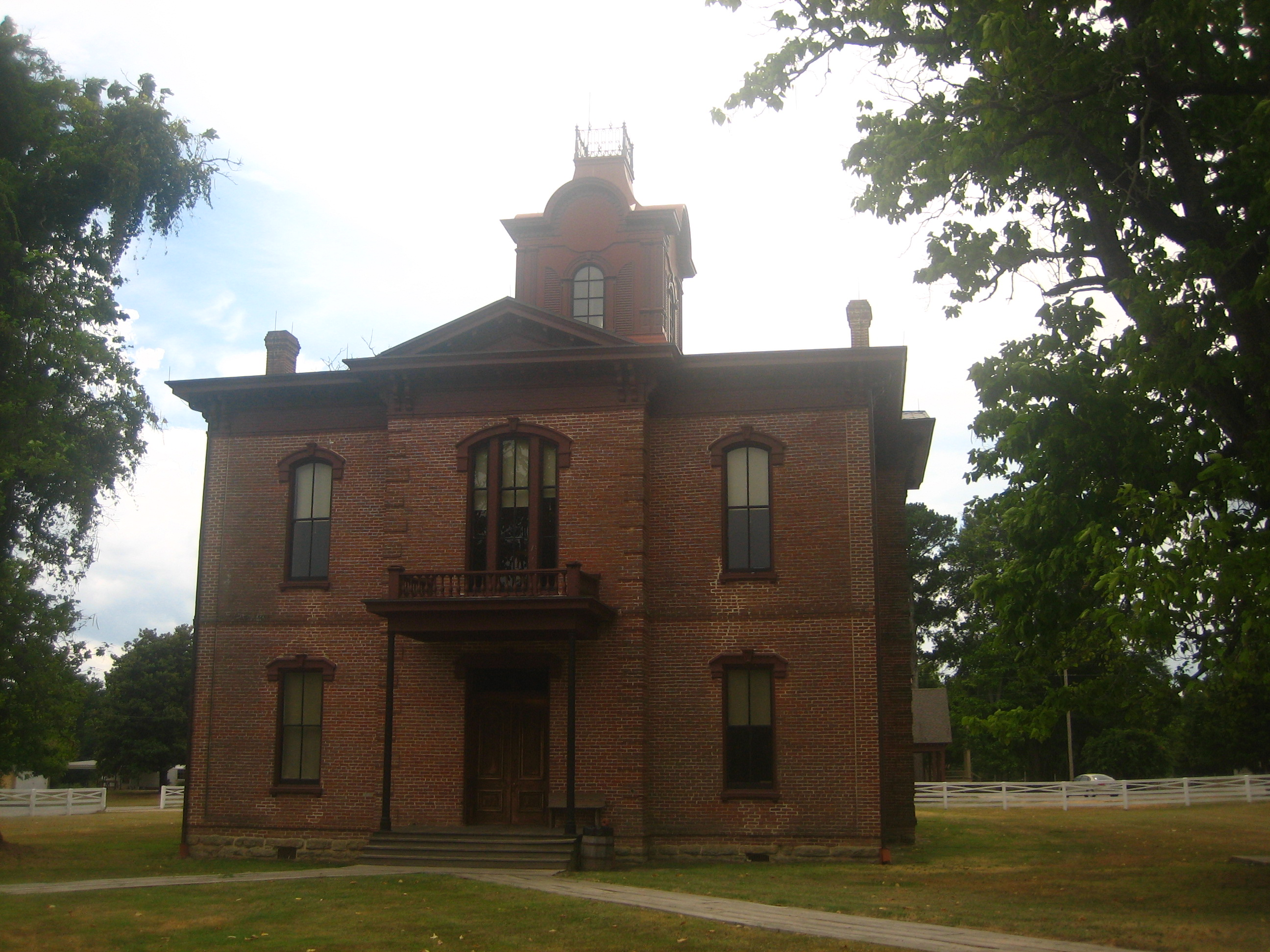 I took photo on Aug. 7, 2008.Billy Hathorn (talk) 22:48, 10 September 2008 (UTC)